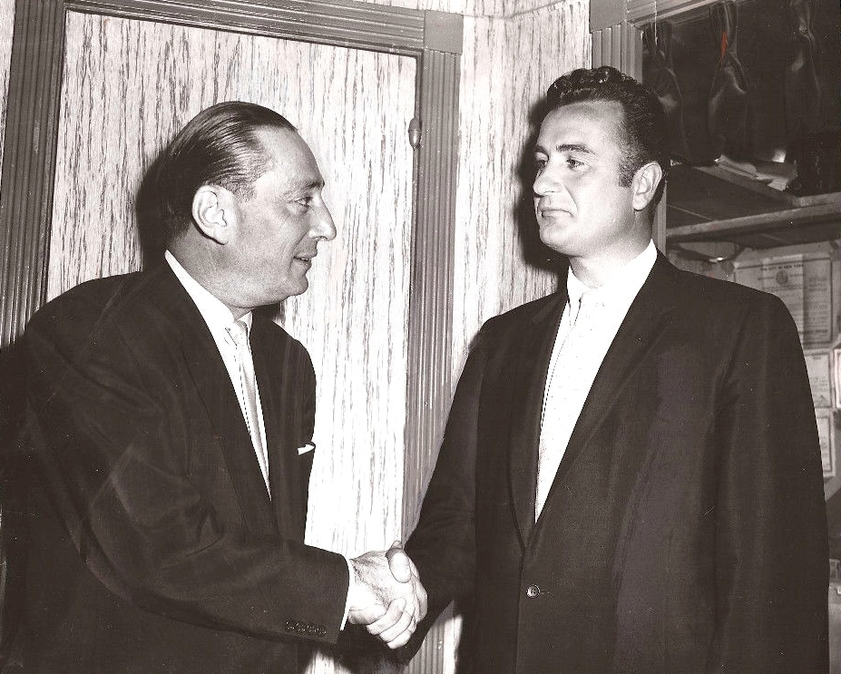 Press photo of Robert Harrison and Richard Weldy